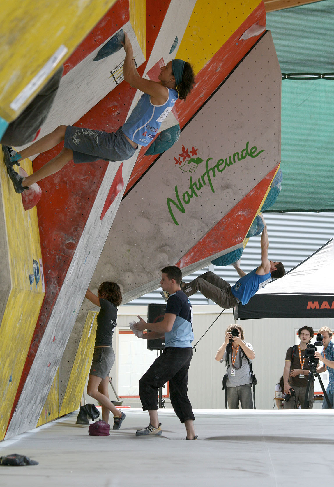 Alexandra Balakireva, Jernej Kruder, Melissa Le Nevé and Lukas Ennemoser during the semi-finals at the IFSC Boulder Worldcup Vienna 2010.